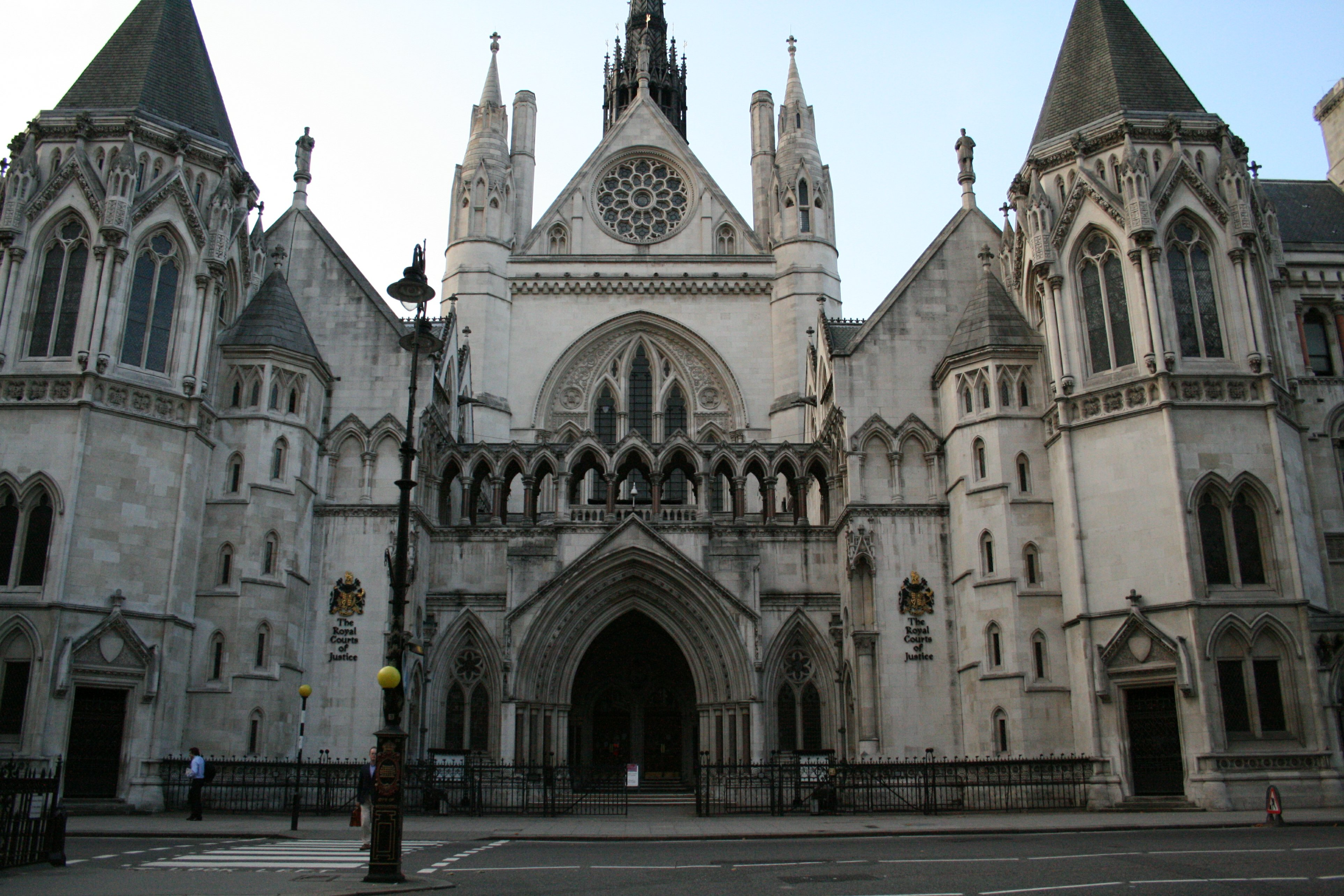 In and around York